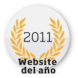 The logo eDarling won in 2011